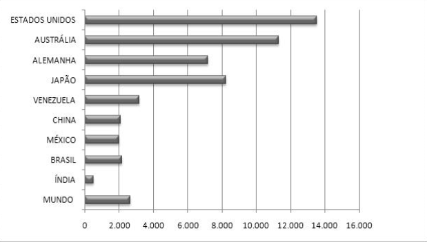 Consumo per Capita de Eletricidade em 2006 em kWh/habitante